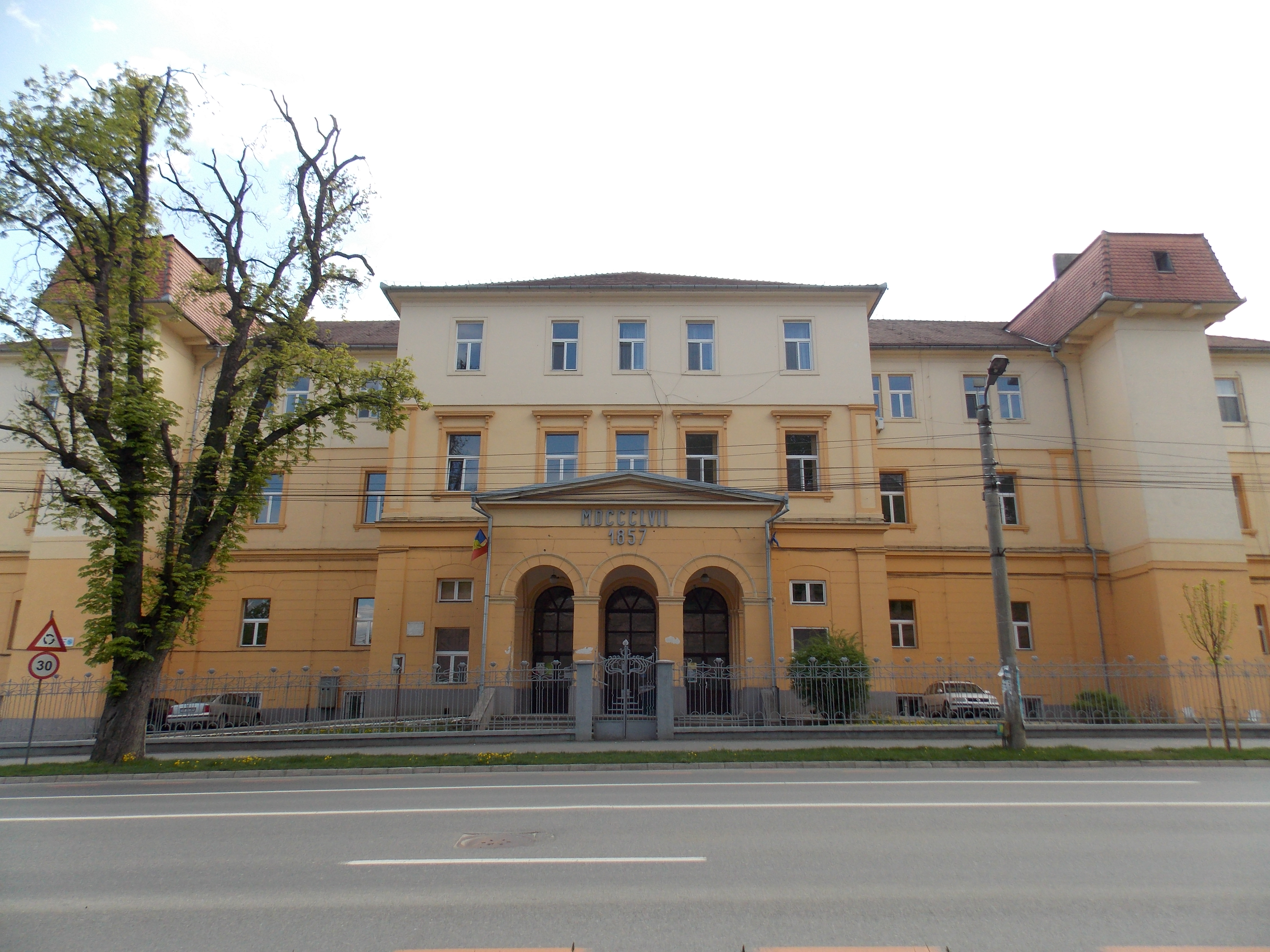 Spitalul Judetean Sibiu - Spitalul vechi (1857)